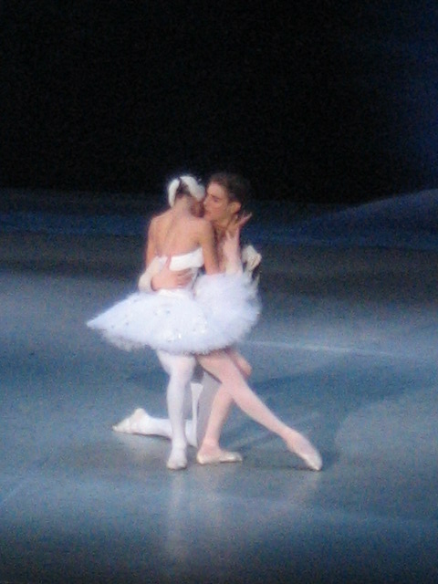 Odette and the Prince in the ballet Swan Lake